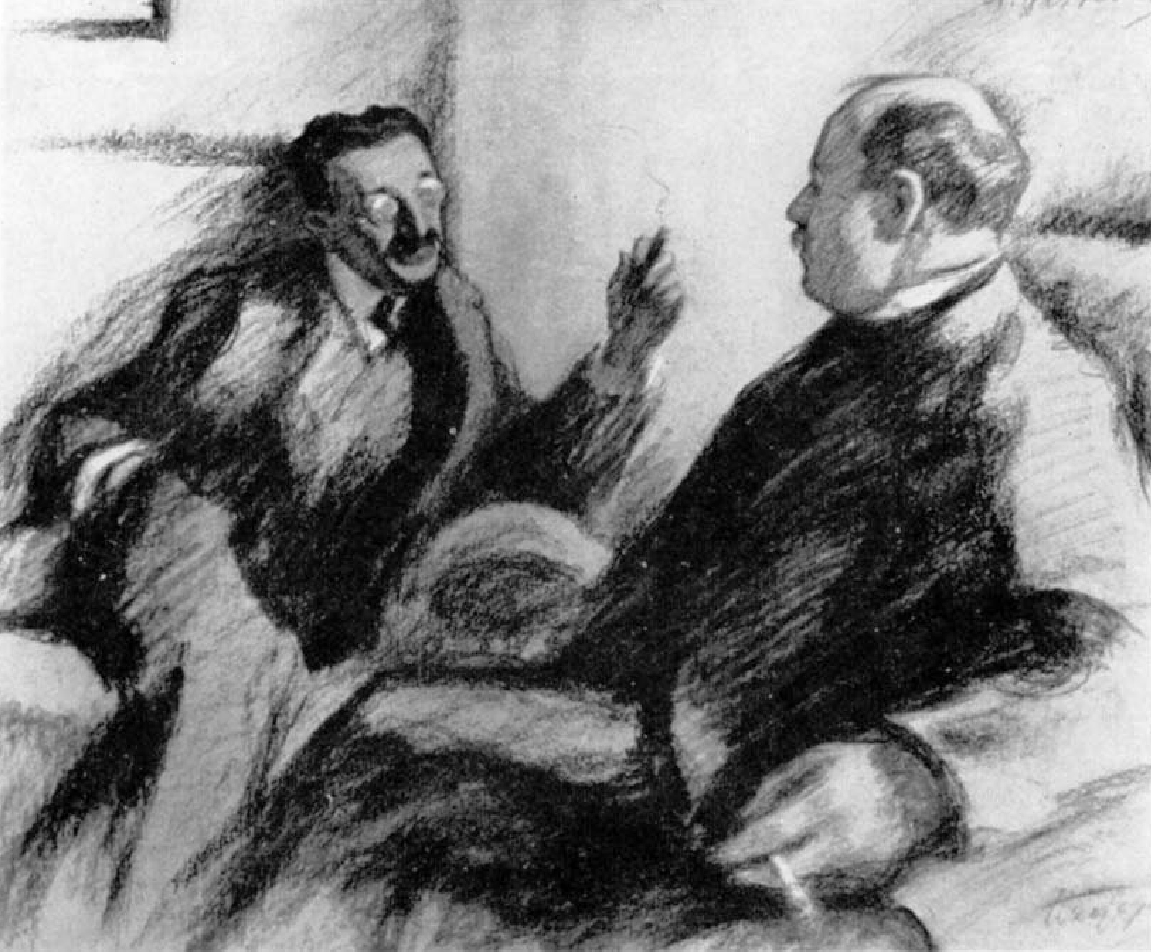 Chajim Nachman Bialik (right) and David Frischmann. Painted in Berlin 1920 by Leonid Pasternak. The original gouache was a property of the banker Rudolf Leob (d. 1966), who was faithful friend of the Leo Beck Institute.